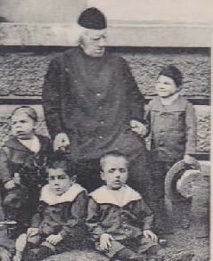 Karl Rolfus with four of his wards, St. Josephsanstalt, Hertem, about 1900.